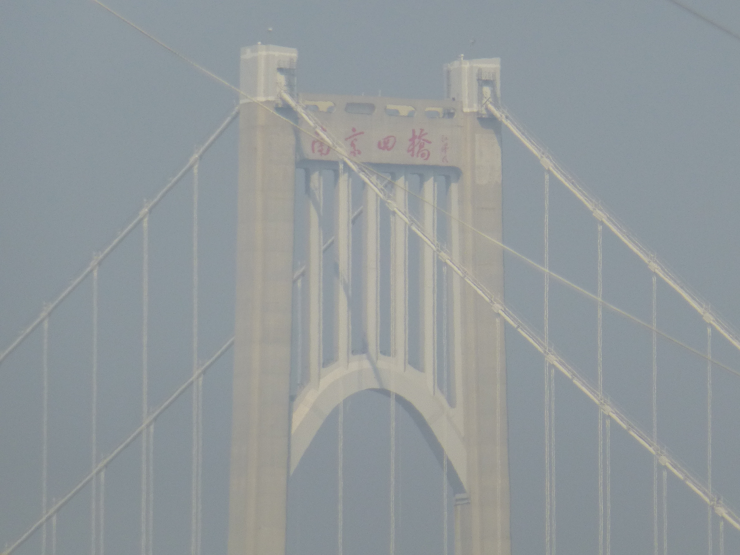 Fourth Nanjing Yangtze Bridge, seen from a market in the vicinity of the Nanjing Oil Refinery and the Tomb of Xiao Rong